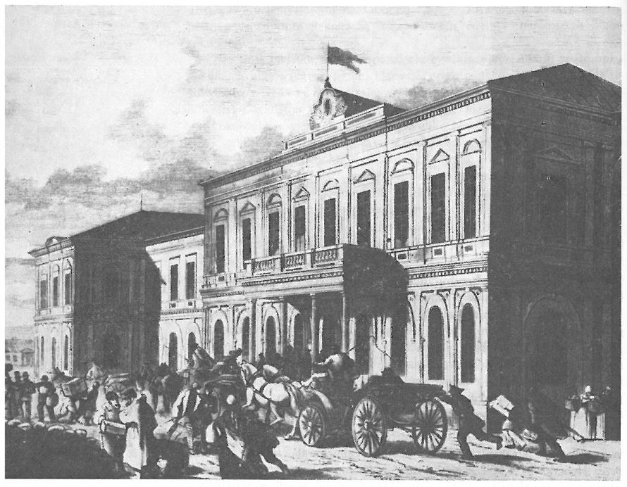 Building of Warsaw Terespolska station in Warsaw